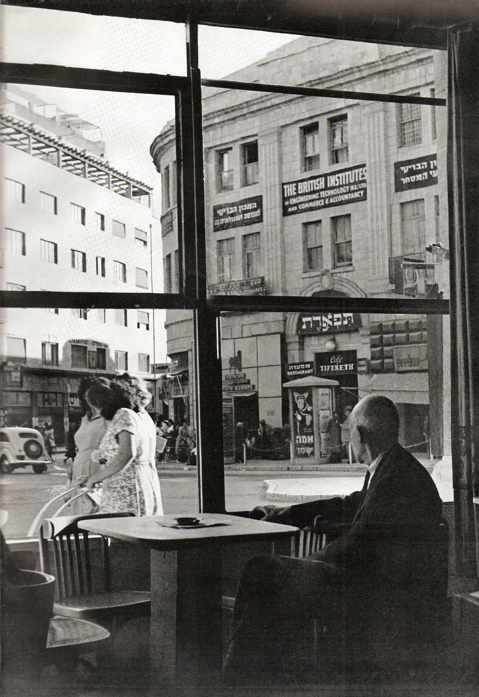 View of Zion Square from inside Vienna Cafe, 1950